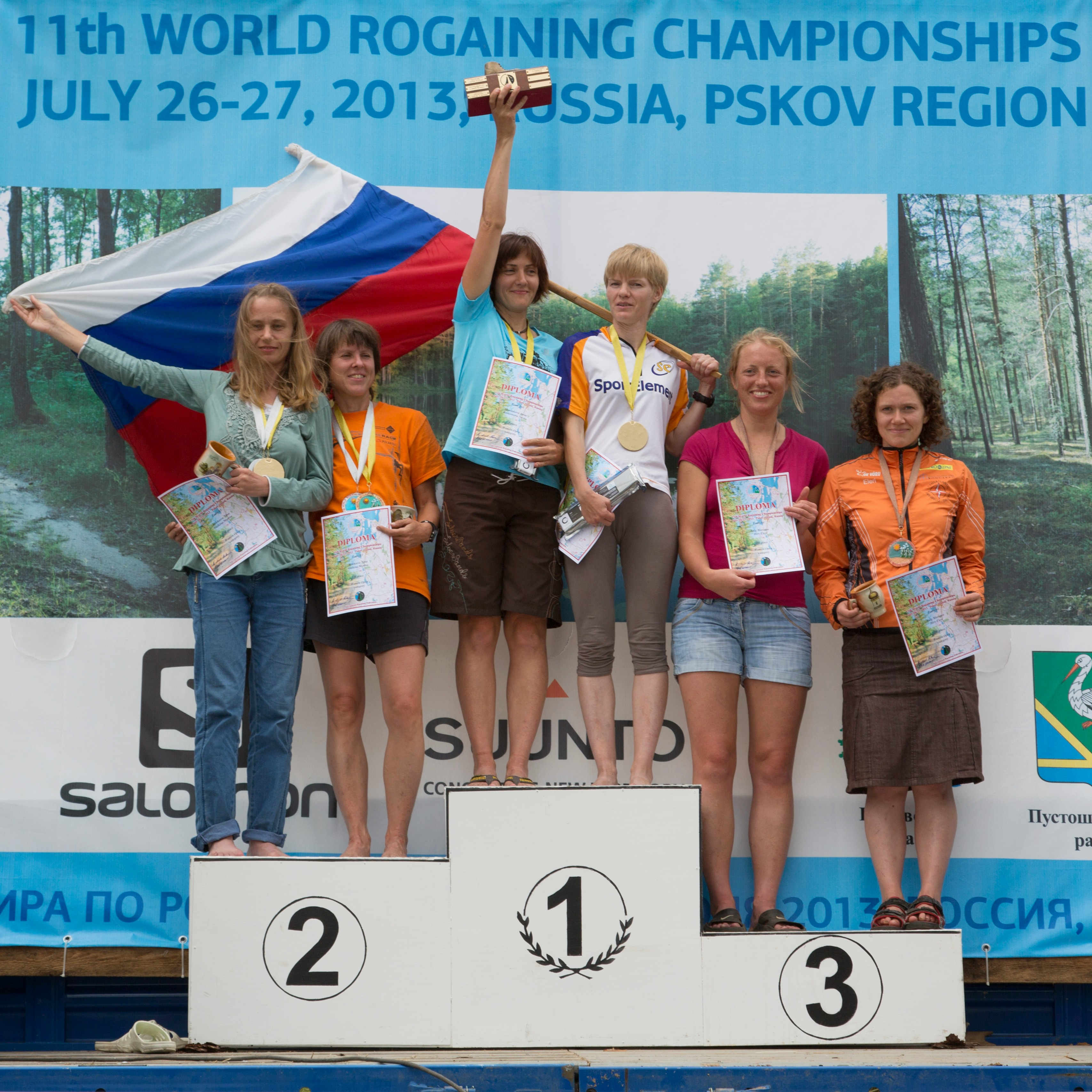 11th World Rogaining Championships 2013 (26-27 July 2013, Russia, Pskov Oblast). Teams-winners in Women's Open category (WO).